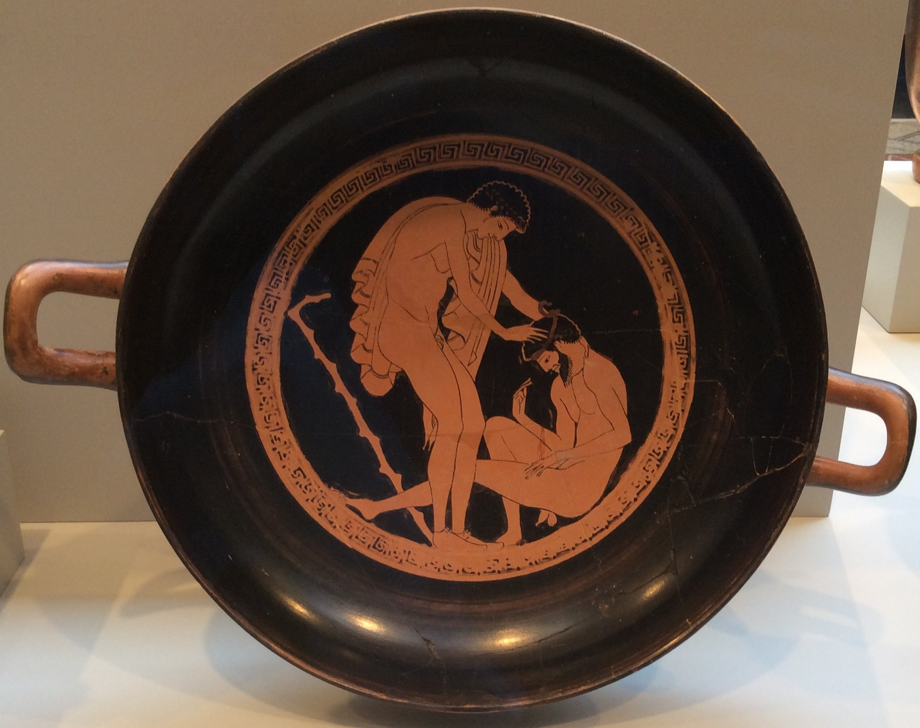 Vase with image of reveller vomiting. Getty Villa 86.AE.285